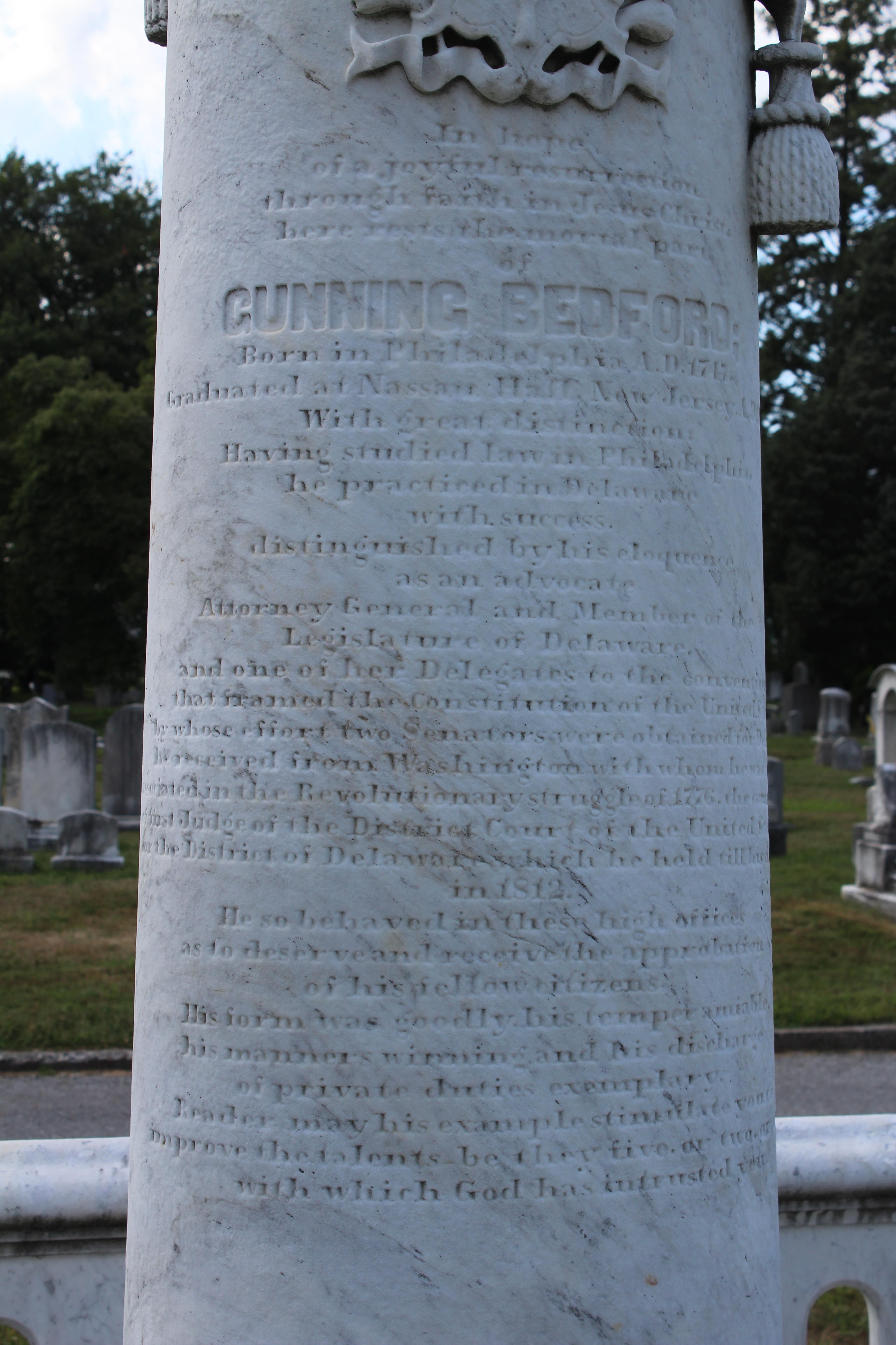 Close Up of Gunning Bedford Jr. Memorial in Wilmington and Brandywine Cemetery in Wilmington, Delaware. Photo taken August 2019.